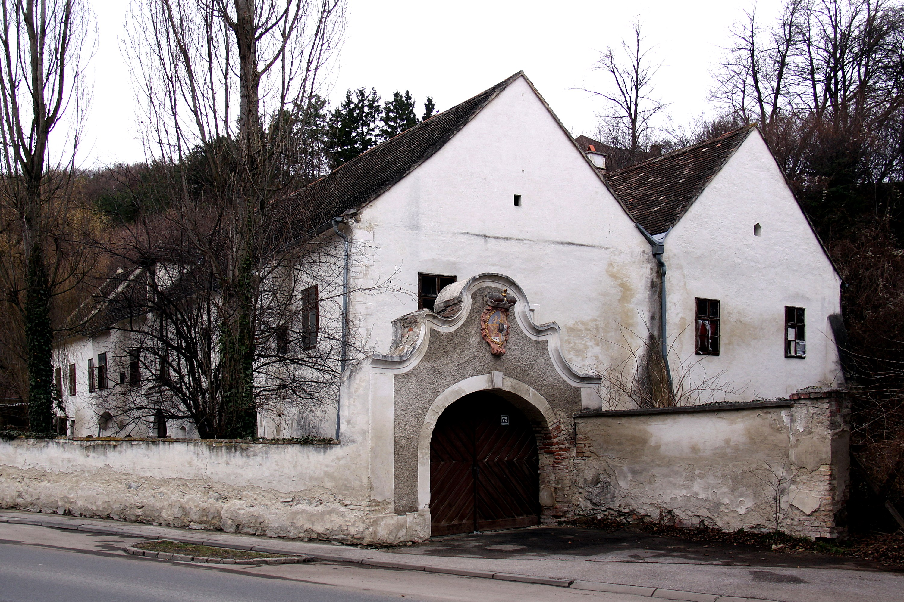 Unterer Edelhof - Forchtenstein Object location47° 42′ 44.36″ N, 16° 20′ 50.8″ E